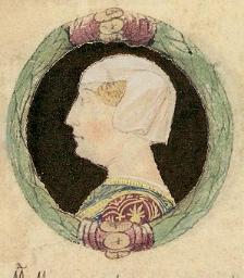 MargheritaGonzaga, wife of Lionello d'Este